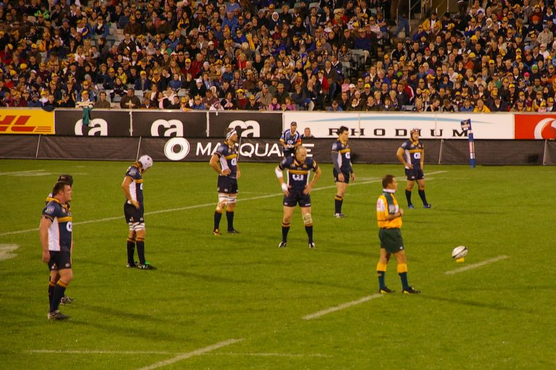 Brumbies v Crusaders last 07 home game - Kick off